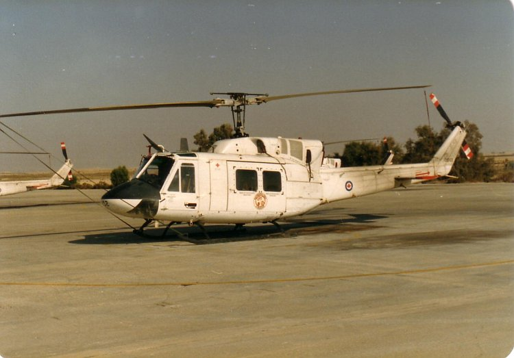 CH-135 Twin Huey 135102 serving with the Multinational Force and Observers Sinai, Egypt, 1989. I took this photo of a Canadian Forces CH-135 Twin Huey helicopter serving with the Multinational Force and Observers in El Gorah, Sinai, Egypt in 1989